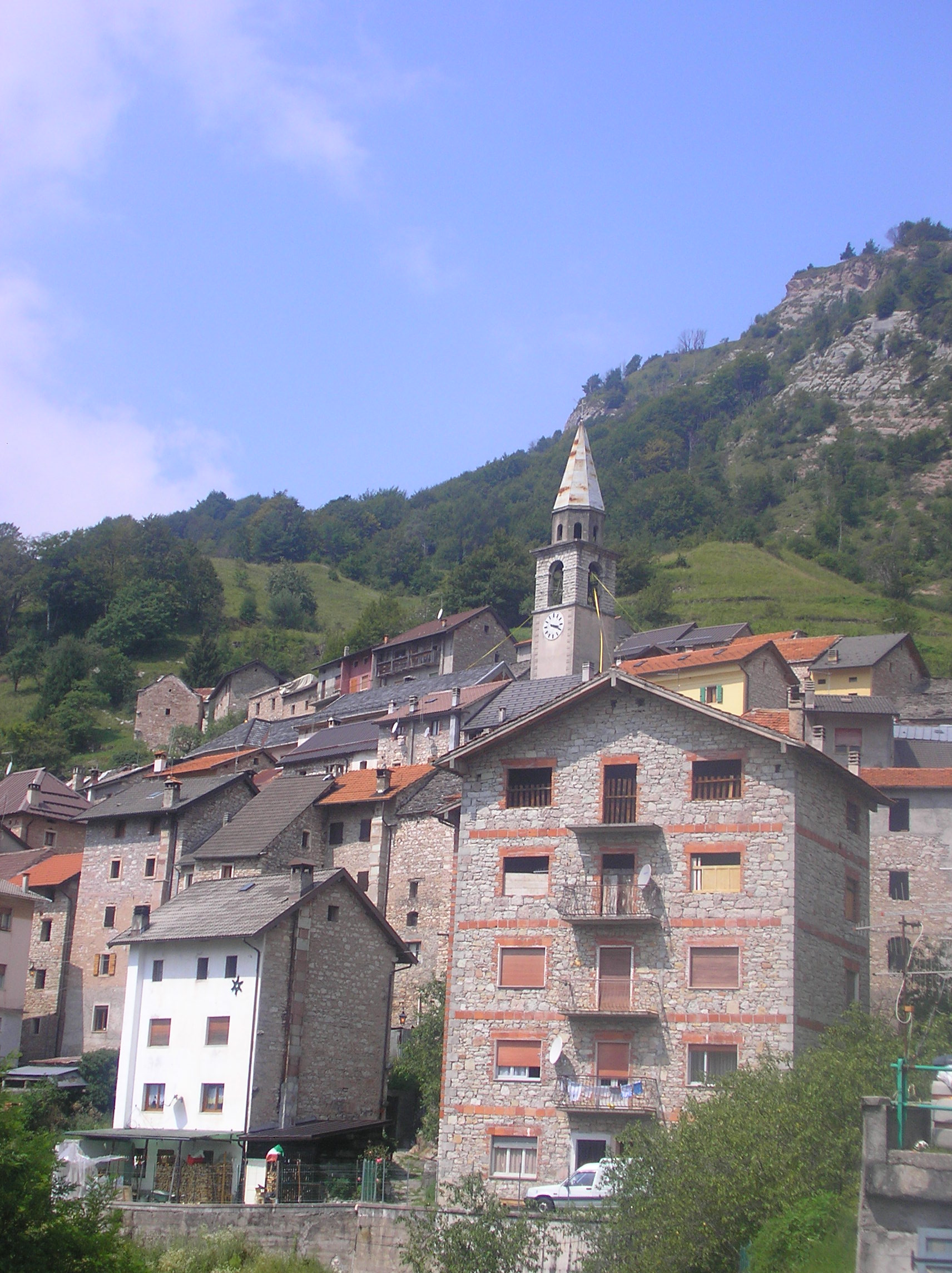 The village of Casso, in the Province of Pordenone. Picture by Riccardo Sartor